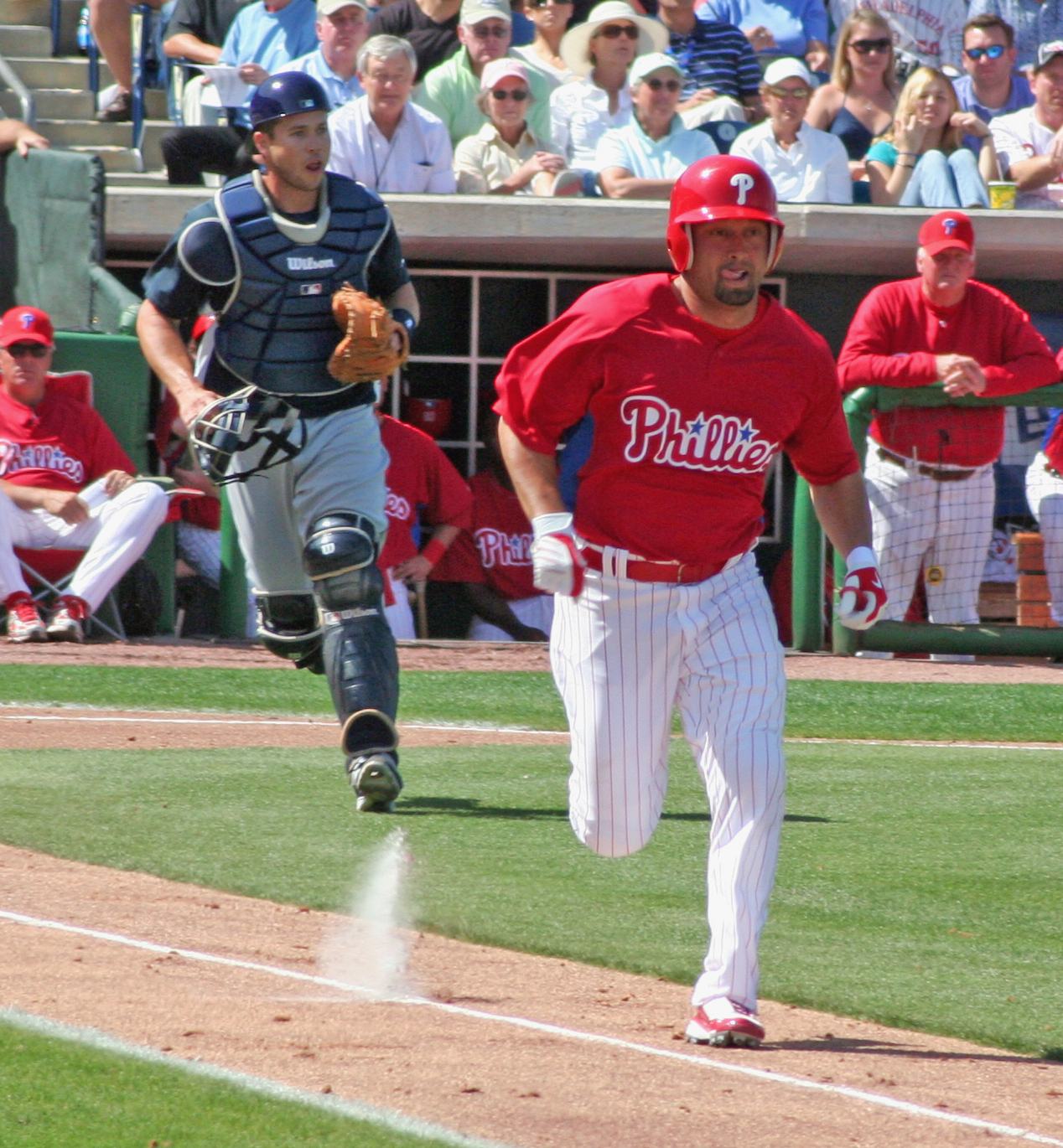 Description Shane Victorino running to first base during Spring Training 2009. Date28 August 2009, 02:11 (UTC)SourceI (Terry Foote) (talk)) created this work entirely by myself.AuthorTerry Foote (talk) 02:11, 28 August 2009 . . Terry Foote . . 1,268×1,370 (1.36 MB) Shane Victorino running to first base during Spring Training 2009.